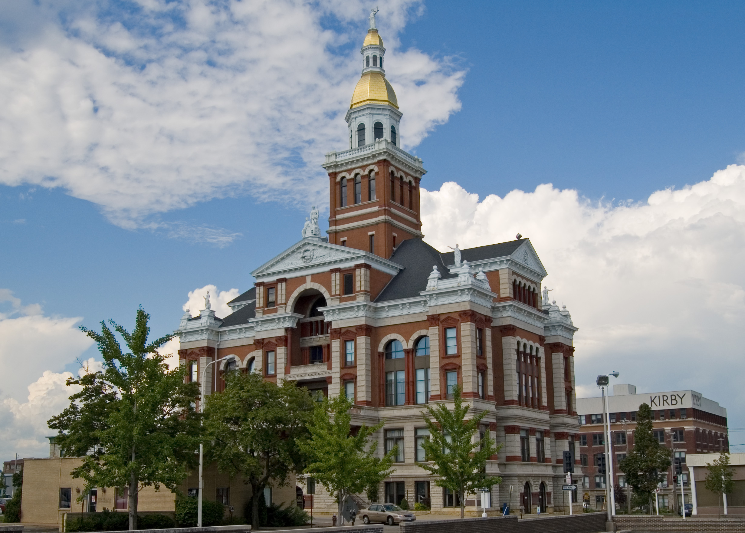 Dubuque County Courthouse in Dubuque, Iowa, USA